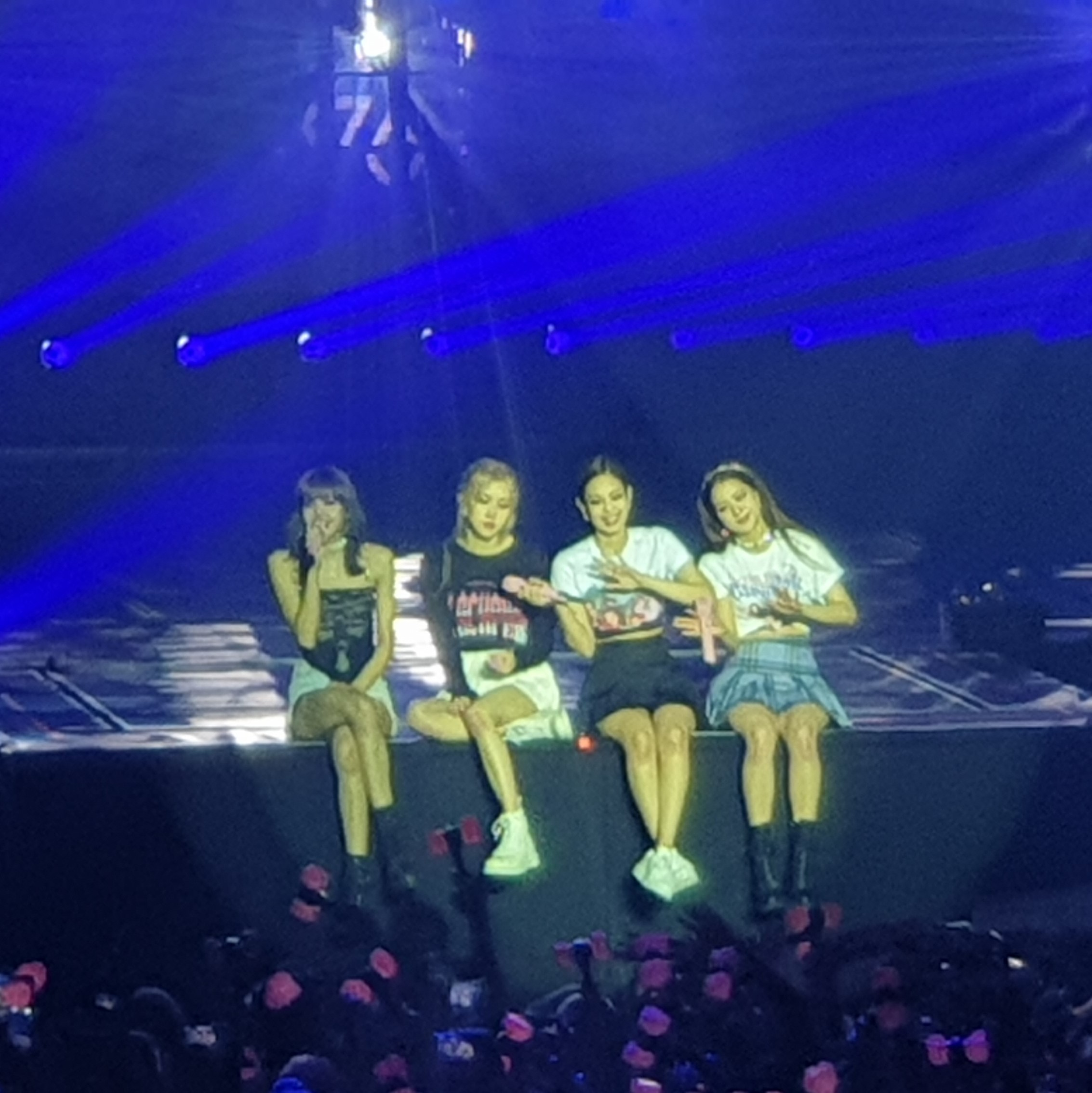 Blackpink Amsterdam concert 2019 WORLD TOUR with KIA [IN YOUR AREA]